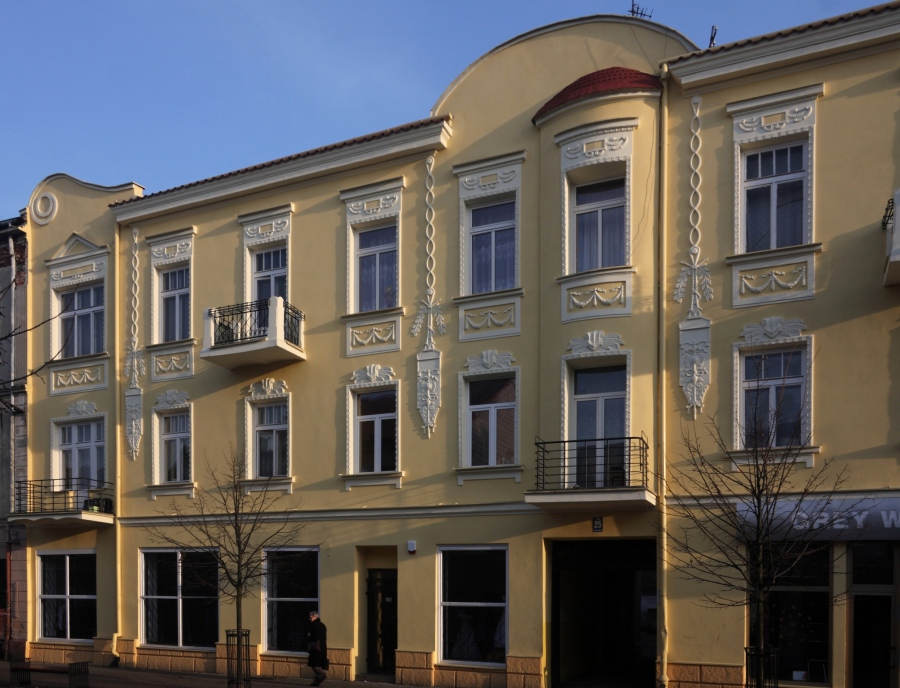 Włocławek, house at 3 Maja No. 25 from 1848, extended in 1865, rebuild ca. 1914.